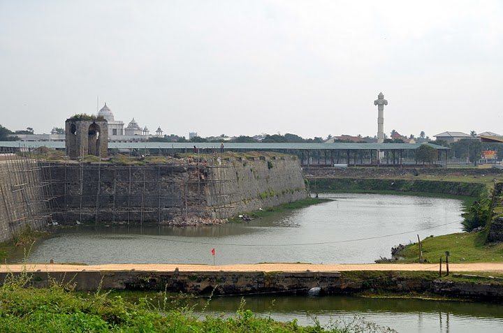 Jaffna fort view